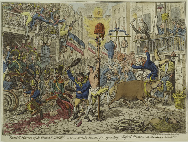 James Gillray, Promis'd Horrors of the French Invasion, -or- Forcible Reasons for Negociating a Regicide Peace, a print. Published in London, England, AD 1796 This image has been released into the public domain by the copyright holder, its copyright has expired, or it is ineligible for copyright. This applies worldwide.